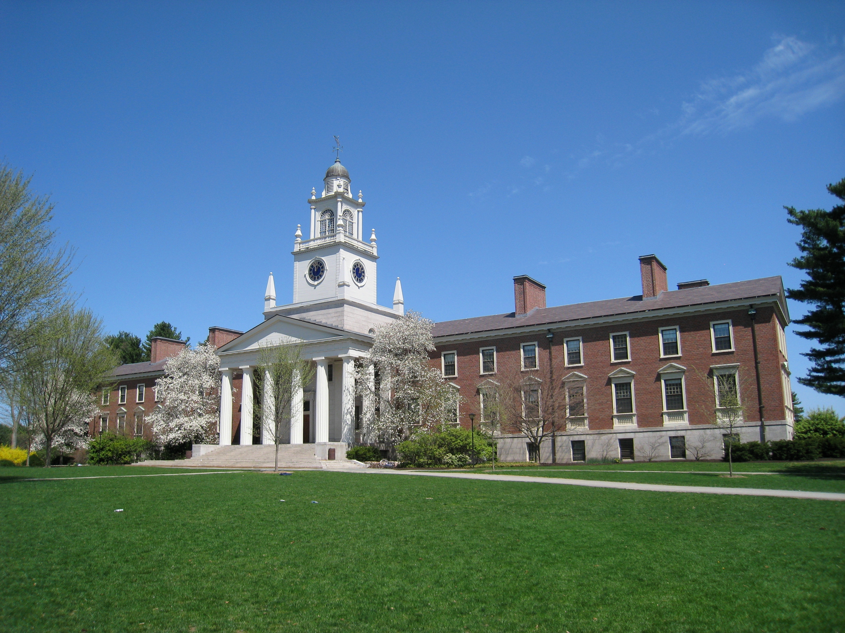 Phillips Academy, Andover, Massachusetts, USA - Samuel Phillips Hall, front facade.